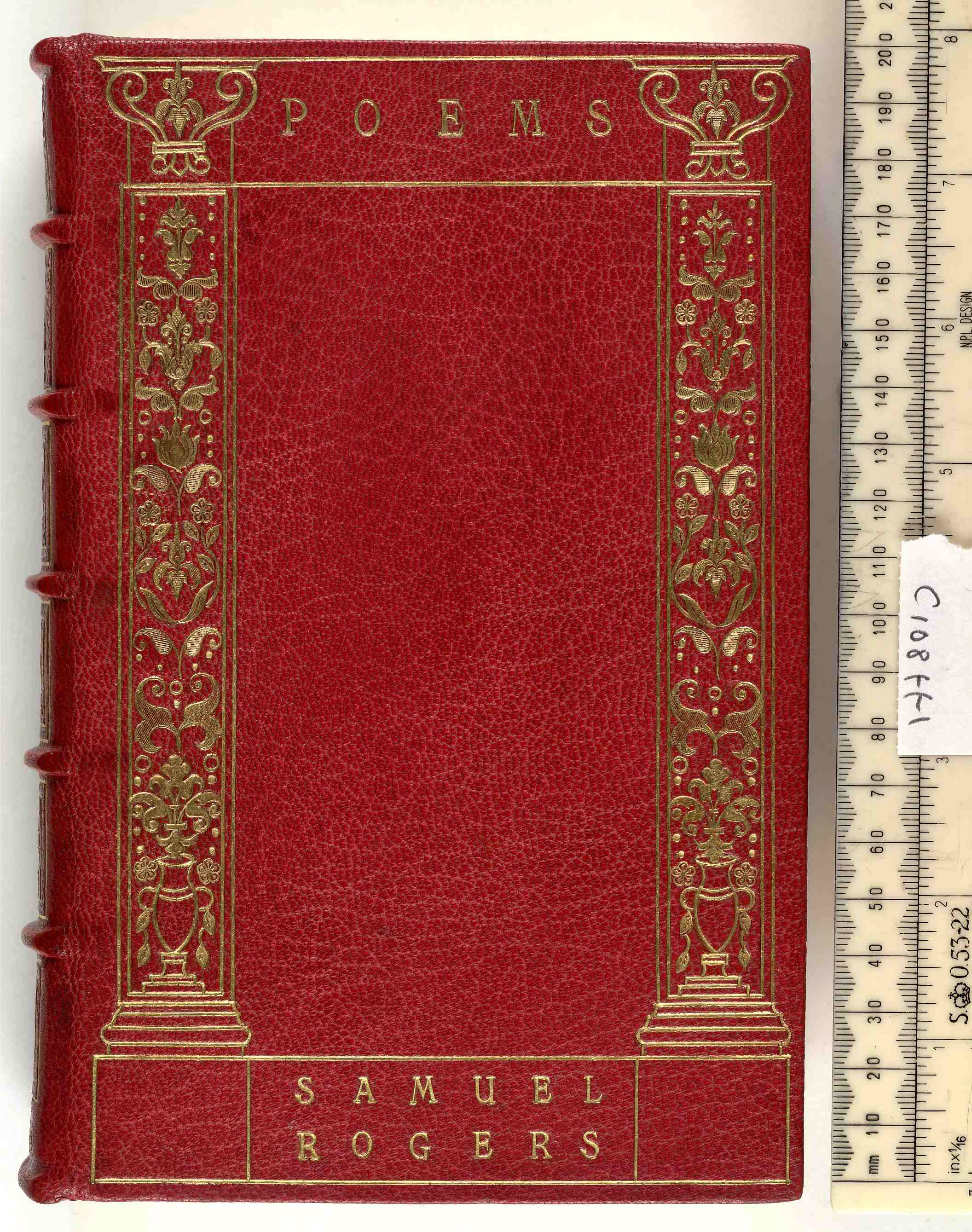 Style: Frame|Lettered cover, eg intitals, titles; Caption: Upper cover; Colour: Red; Edge: Unspecified